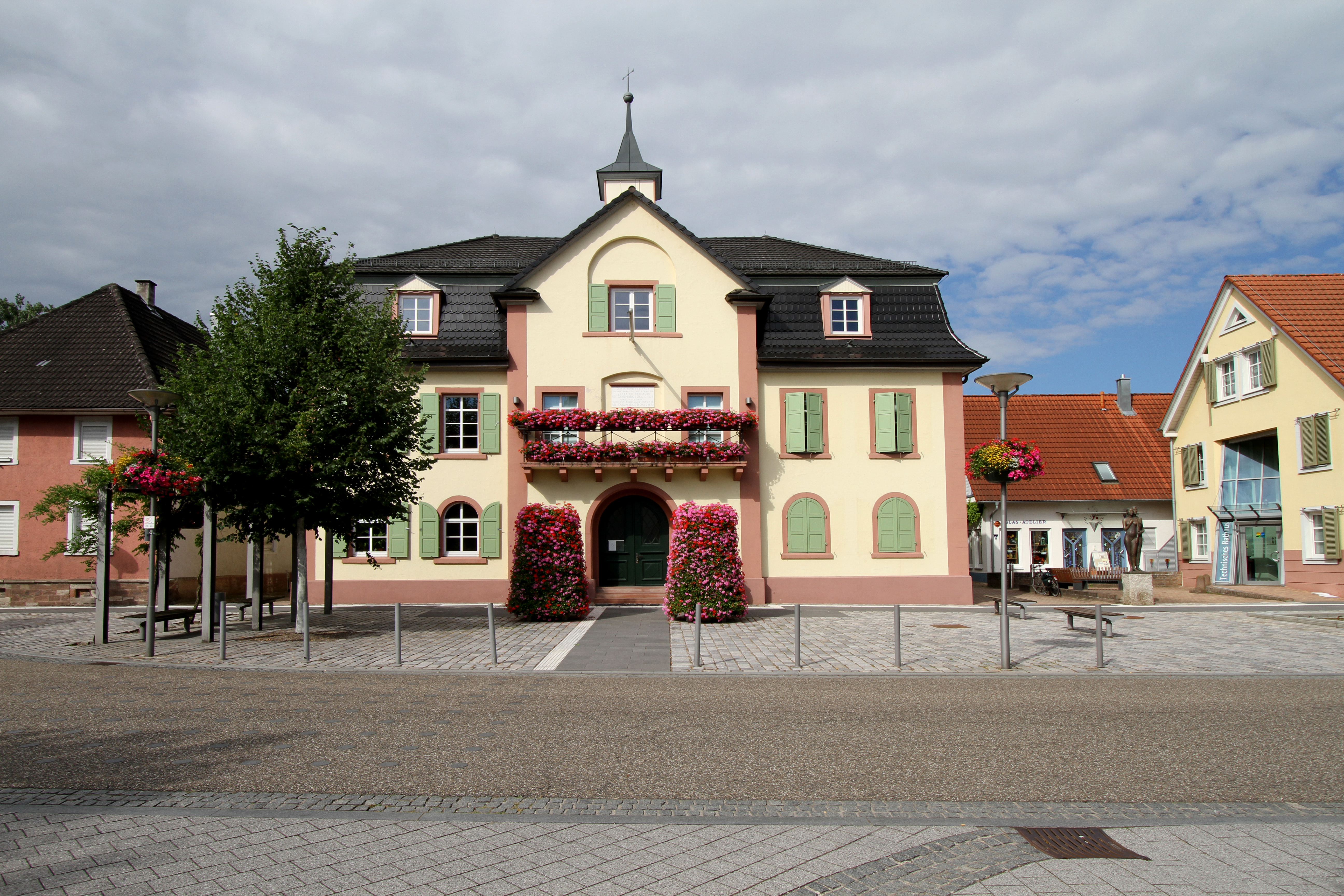 City hall in Muggensturm.